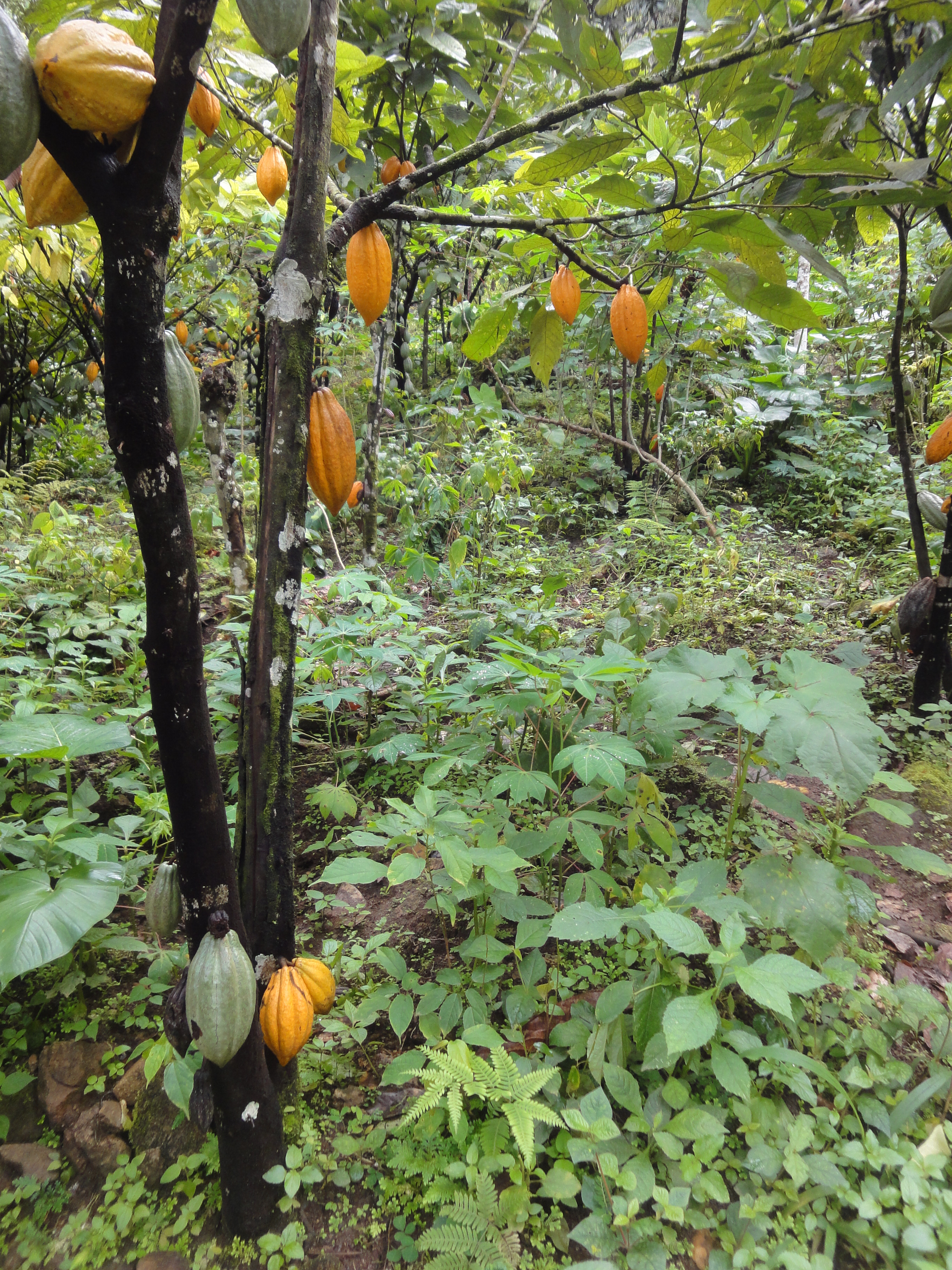 Cocoa plantation in Tabot (Wabane), Southwest Region of Cameroon